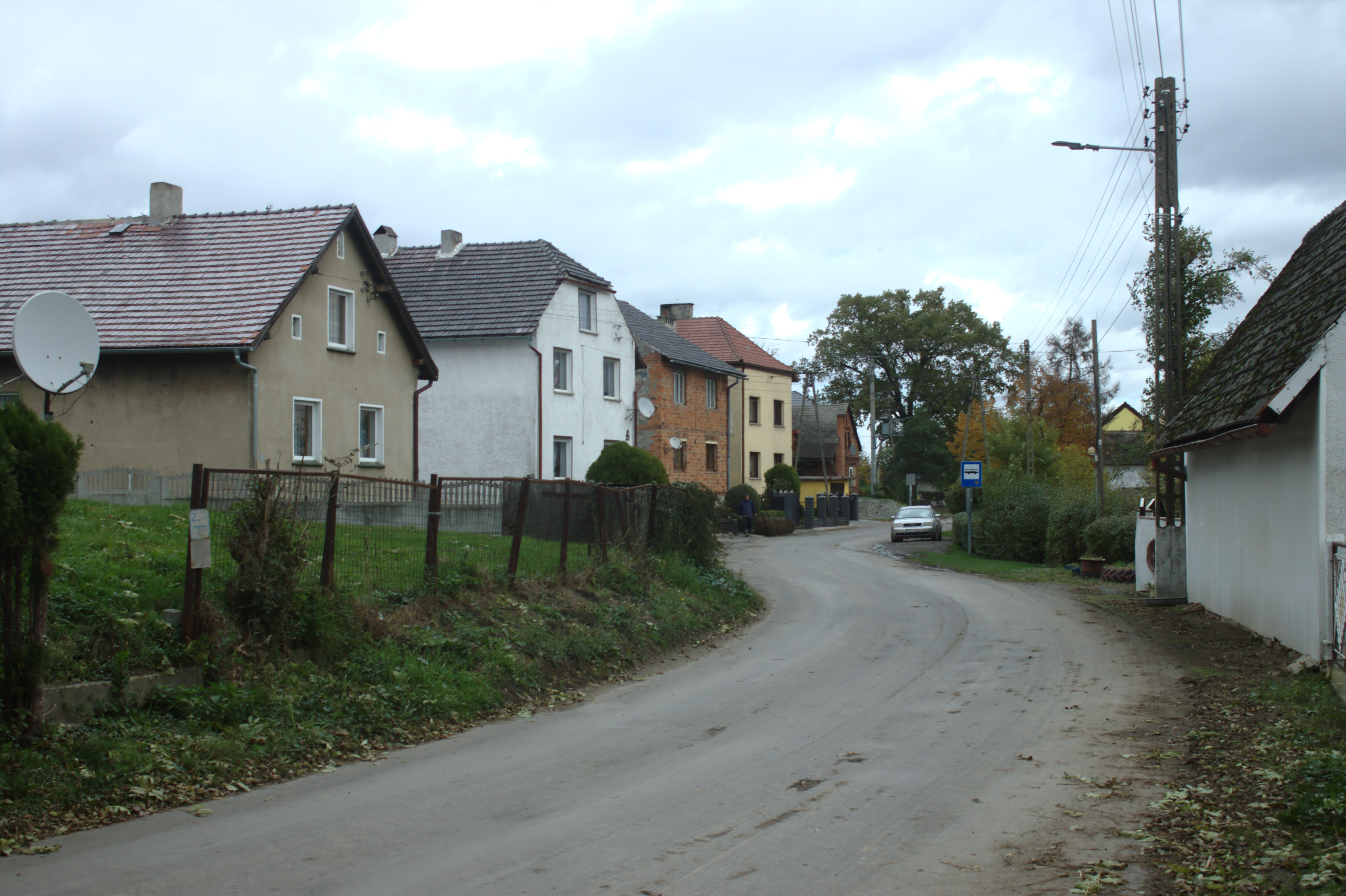 Buildings next to a road in Roszowice, Poland